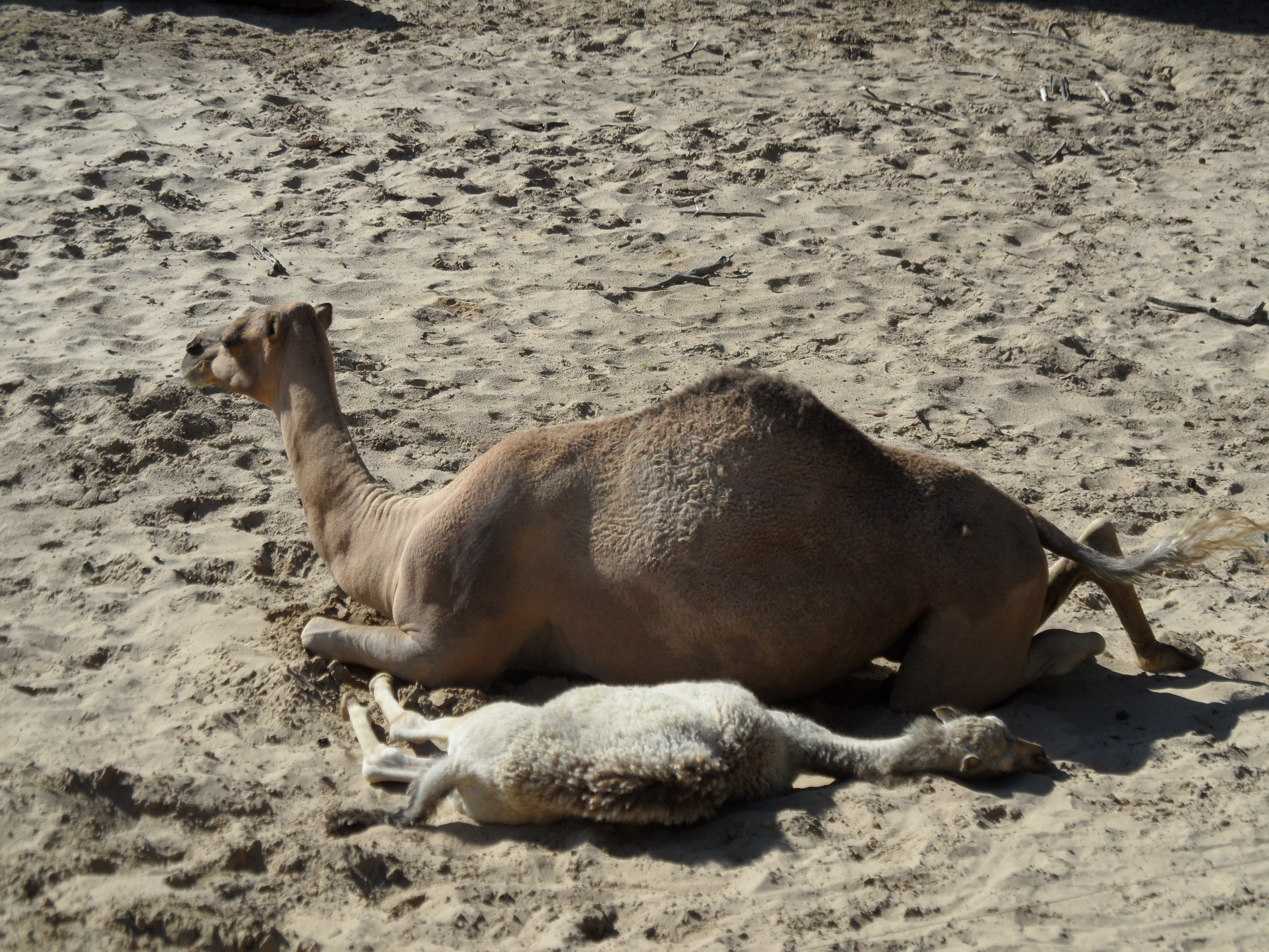 Arabian camel with young in Gdańsk zoo